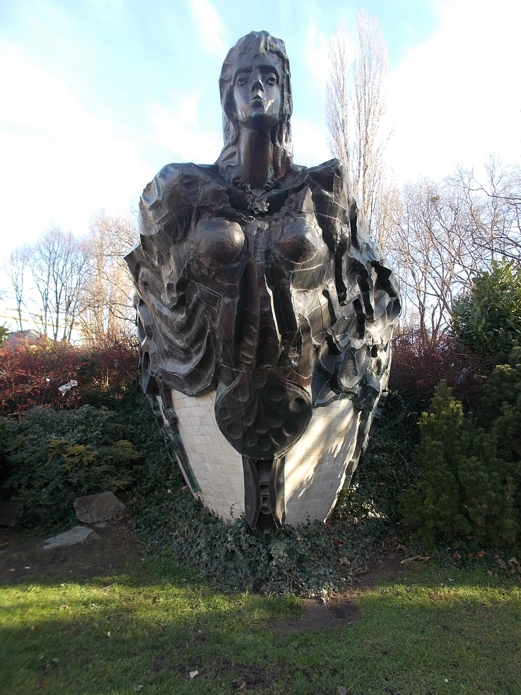 Őshajó (lit. Ancient boat or ship) by Tamás Varga is a 4.5m high, 4m wide, 7m long, 17 ton, 2001 works Bronze abstract sculpture on limestone base / 'the ship hull' / 'sitting' on a artficial mound, built of earth and rock with vegetation planned by Ambrus Pirk (landscape and garden architect engineer), the Figurehead of the 'ship' is a winged figure (angel?) the sizeable 'wings' of its are the 'ship' deck railings, the Figurehead is on cca. five meter high from ground level. The monument located on site of the the former Liberation Monument (1965 work, demolished under the new political regime) and the Soviet monument (1947 work, the revolutionaries destroyed it in 1956) Béke Square in Angyalföld neighbourhood, Budapest District XIII.